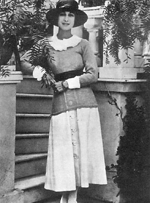 Wallis Spencer